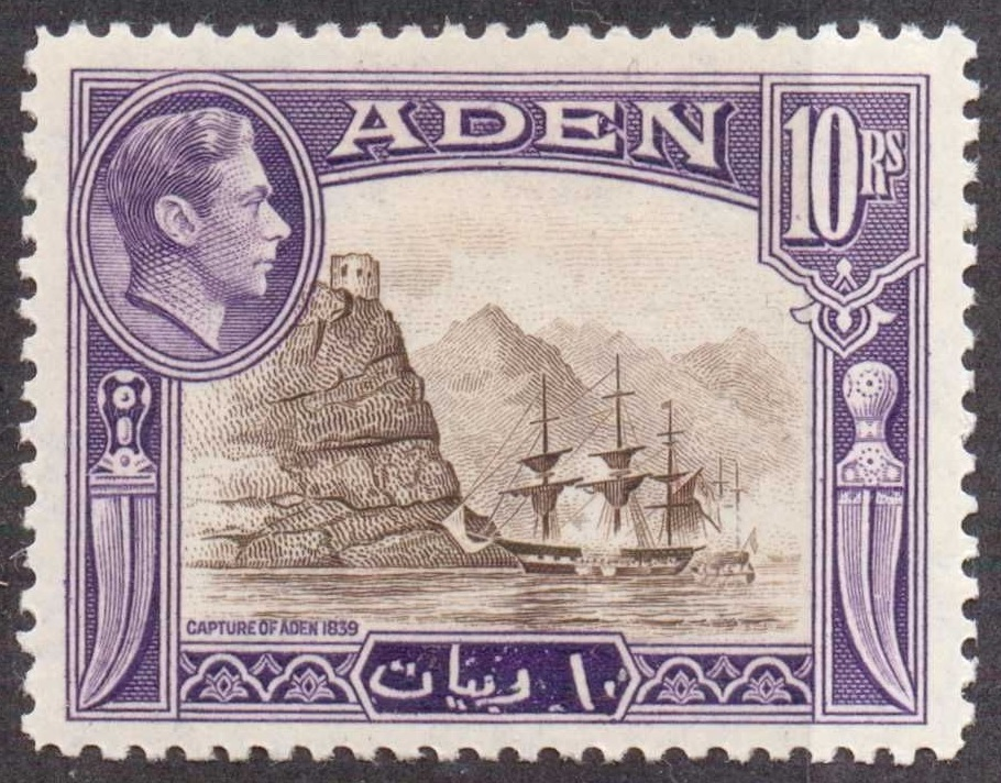 Stanley Gibbons #27, 1939 10r. brown and violet. Stanley Gibbons online 2007 catalog prices is US $56.73.